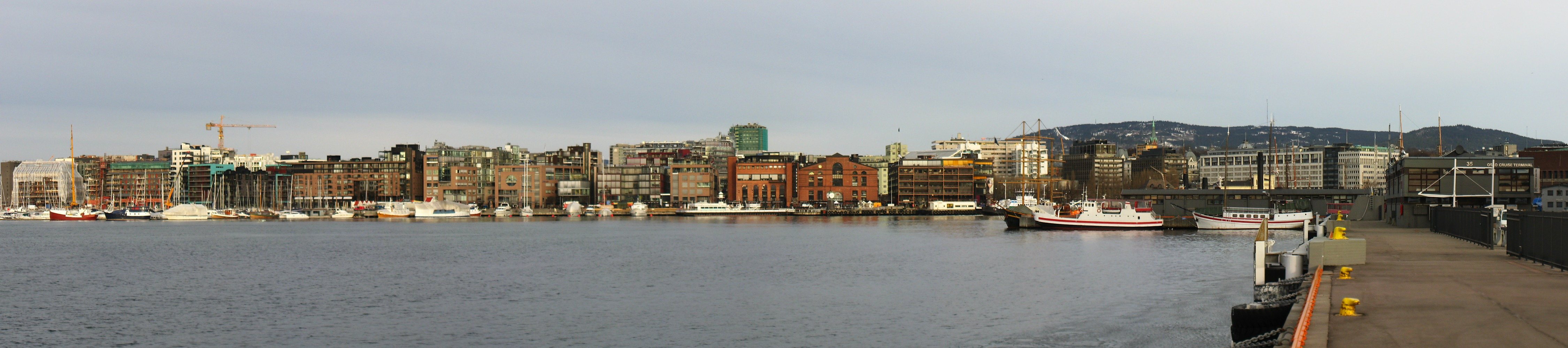 Panoramic of Aker Brygge, Oslo, Norway as seen from Akerusstranda. Stitched in Hugin based on two rows of handheld photos taken with a Canon IXUS 800 IS compact camera. Generated in cylindric projection, cropped, tone curve adjusted, saturated, and threshold USM'd (50%, 1px), threshold Gaussian blurred to remove noise in sky. Hereafter downsampled to 4500x1000 px to further reduce noise and increase sharpness.